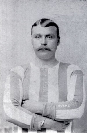 Arthur Hulme, English footballer who played as an inside forward, pictured in Brighton & Hove Albion F.C. kit